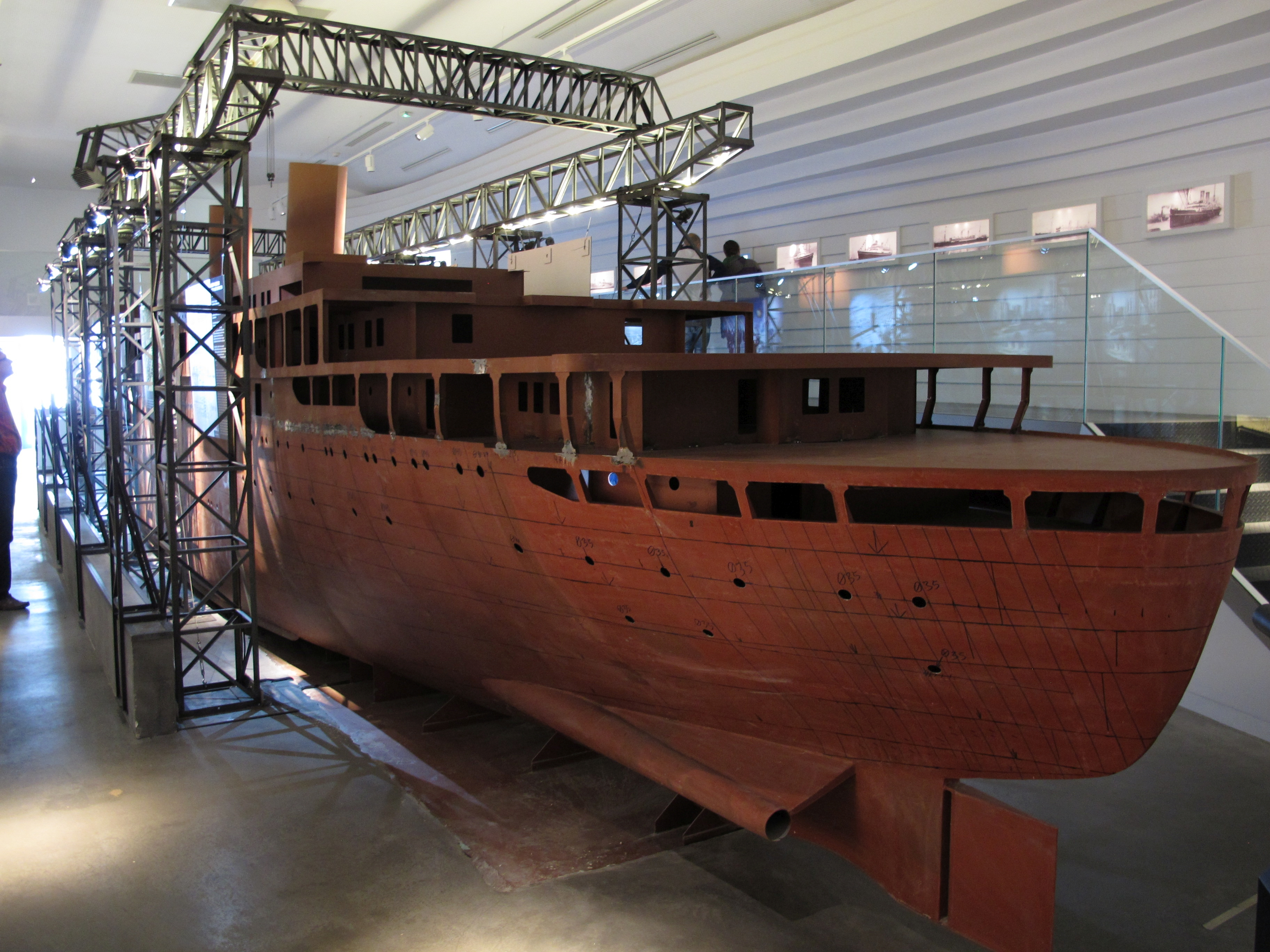 Gdynia - Museum of Emigration - mock up of transatlantic ship SS "Batory"